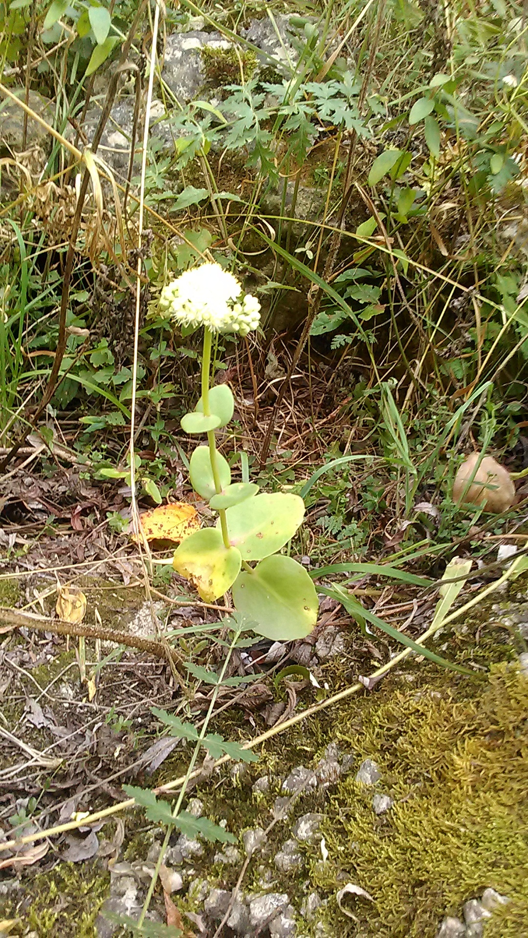 Hylotelephium caucasicum. Species of plant. Synonym of Sedum caucasicum.